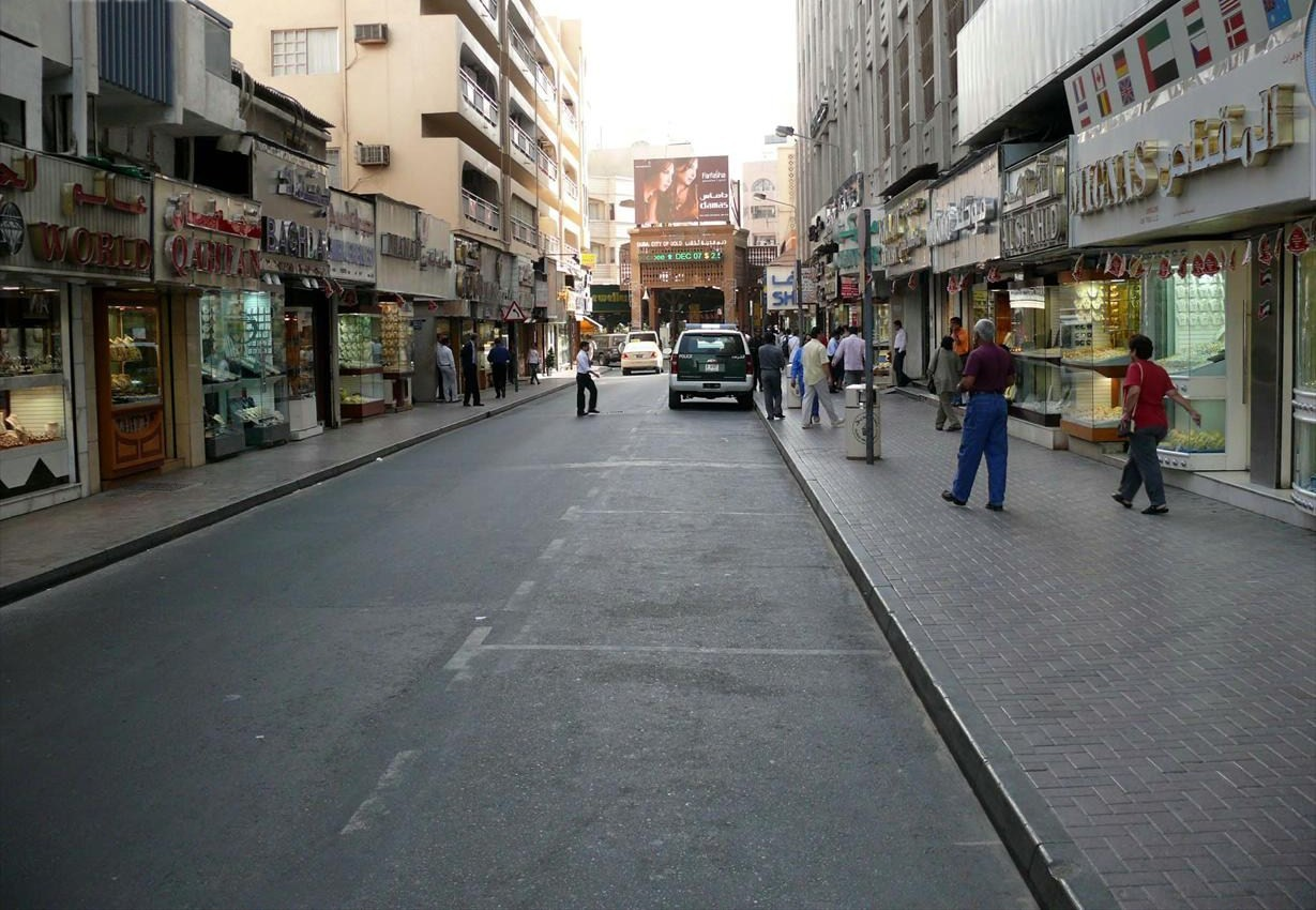 This is a photo showing a street in Al Ras in Deira, Dubai, United Arab Emirates on 26 December 2007. The main entrance to the Deira Gold Souk can be seen down the street.